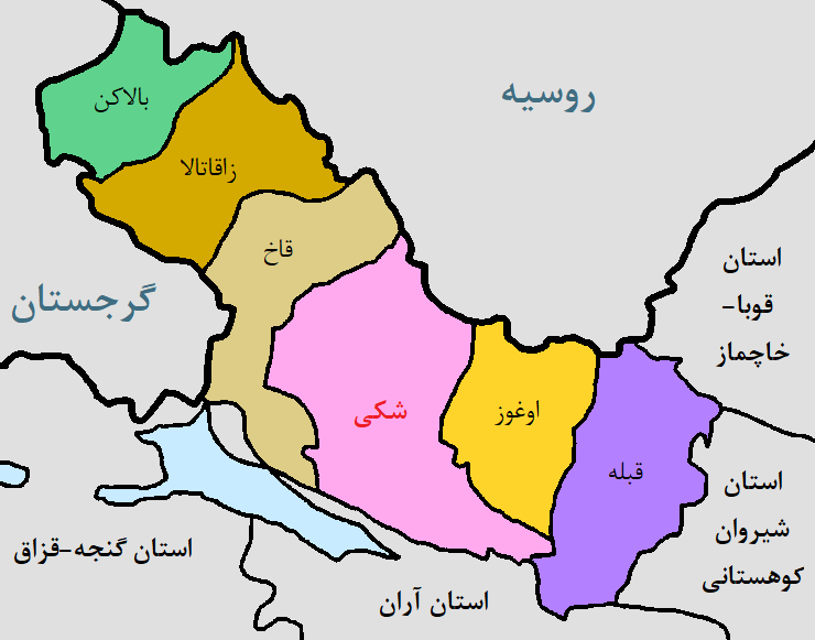 Shaki-Zaqatala Region